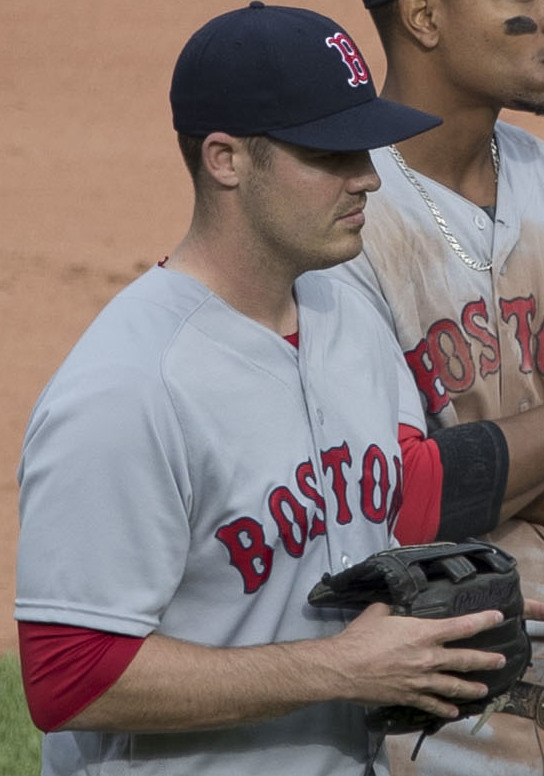 Red Sox at Orioles 4/23/17